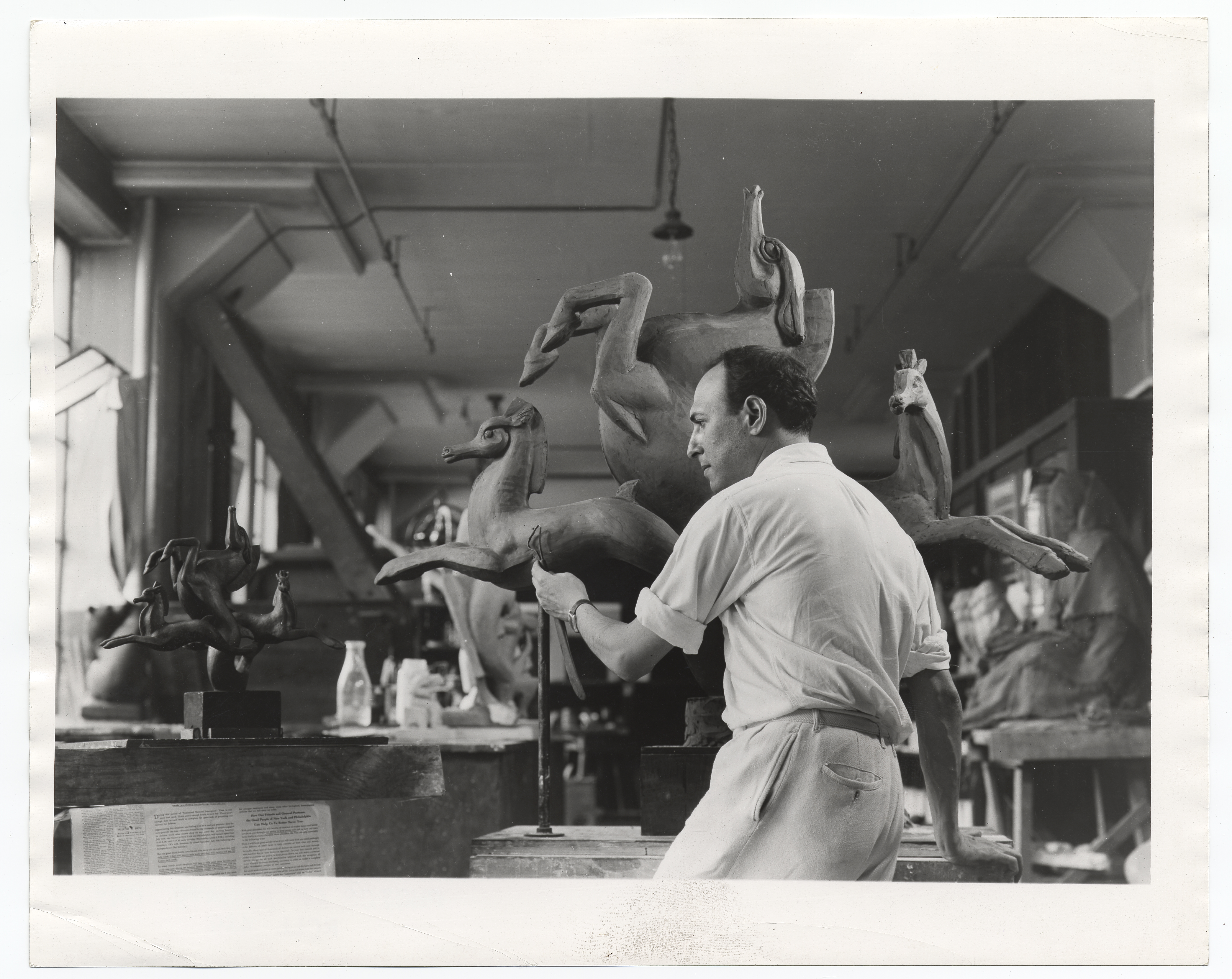 Hirsch working on sculptures. Identification on verso (handwritten and stamped): New York City W.P.A. Art Project; Photography Division; 110 King Street Artist: Willard Hirsch.